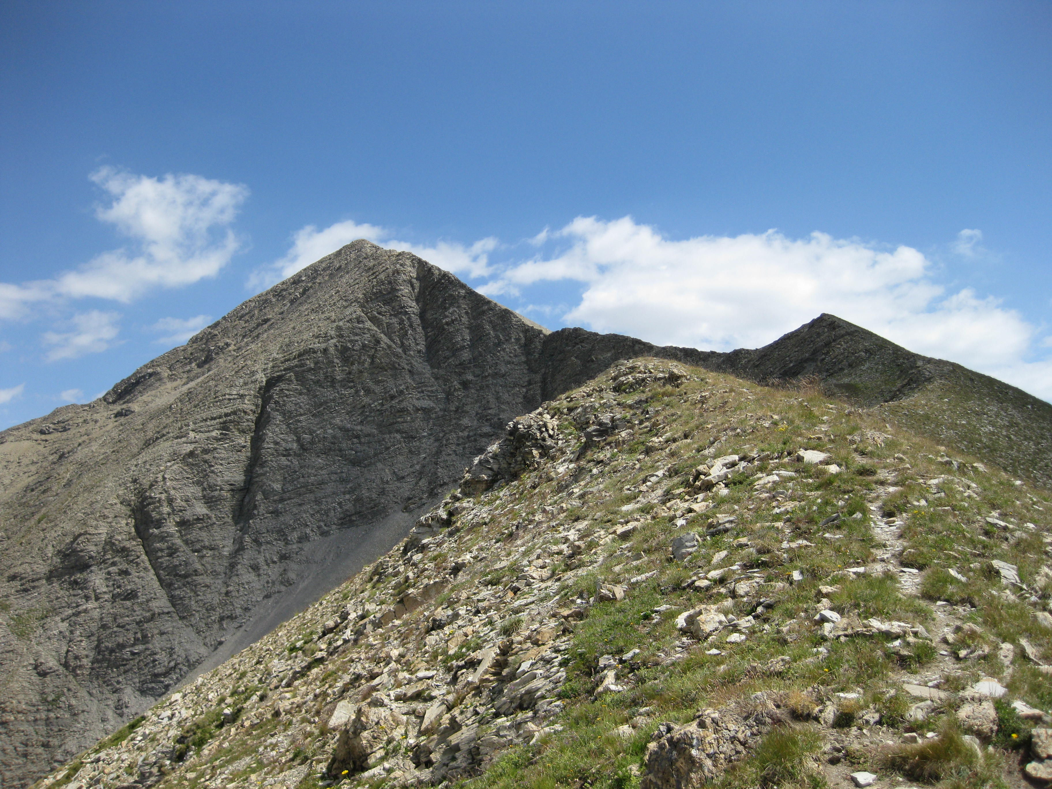 Grande Autane (2782 m), mountain in France (High Dauphiné, Département Hautes-Alpes). East view from the ridge after passing Col de Combeau.